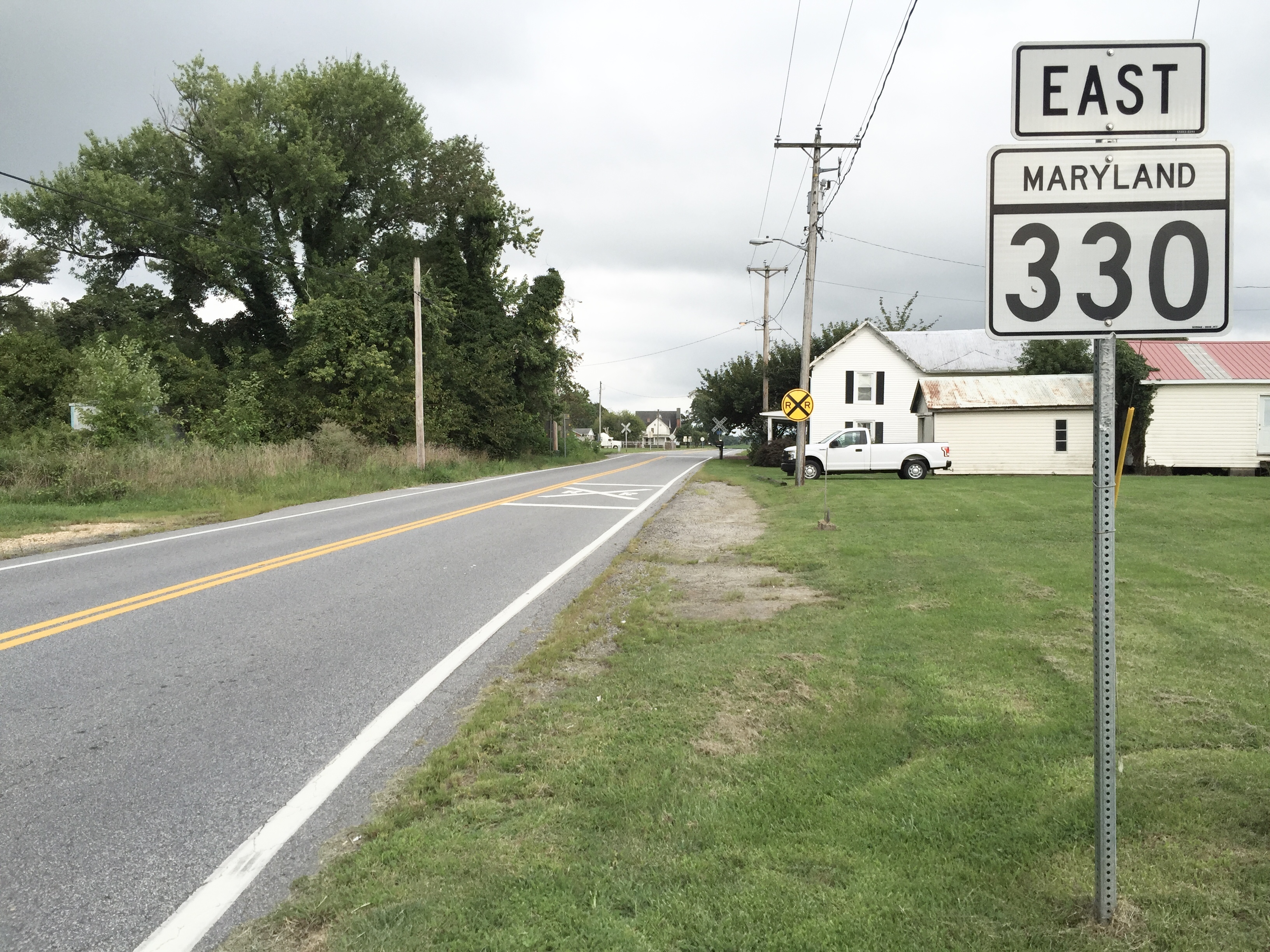 View east along Maryland State Route 330 (Maryland Line Road) at Maryland State Route 313 (Galena Road) and Maryland State Route 299 (Massey Road) in Massey, Kent County, Maryland